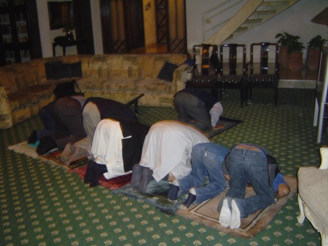 Line of men bending in Muslim prayers at a Pakistani home during Ramadan.